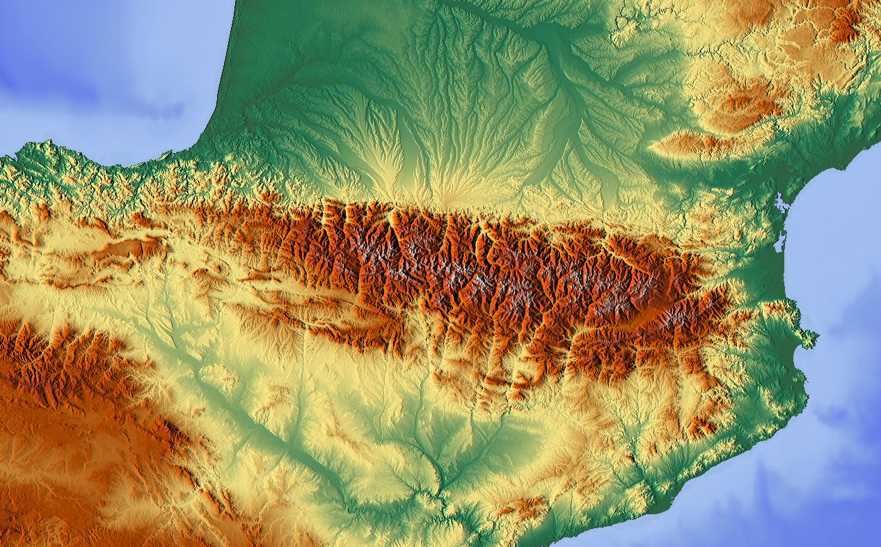 Map of the relief of Pyrenees mountains